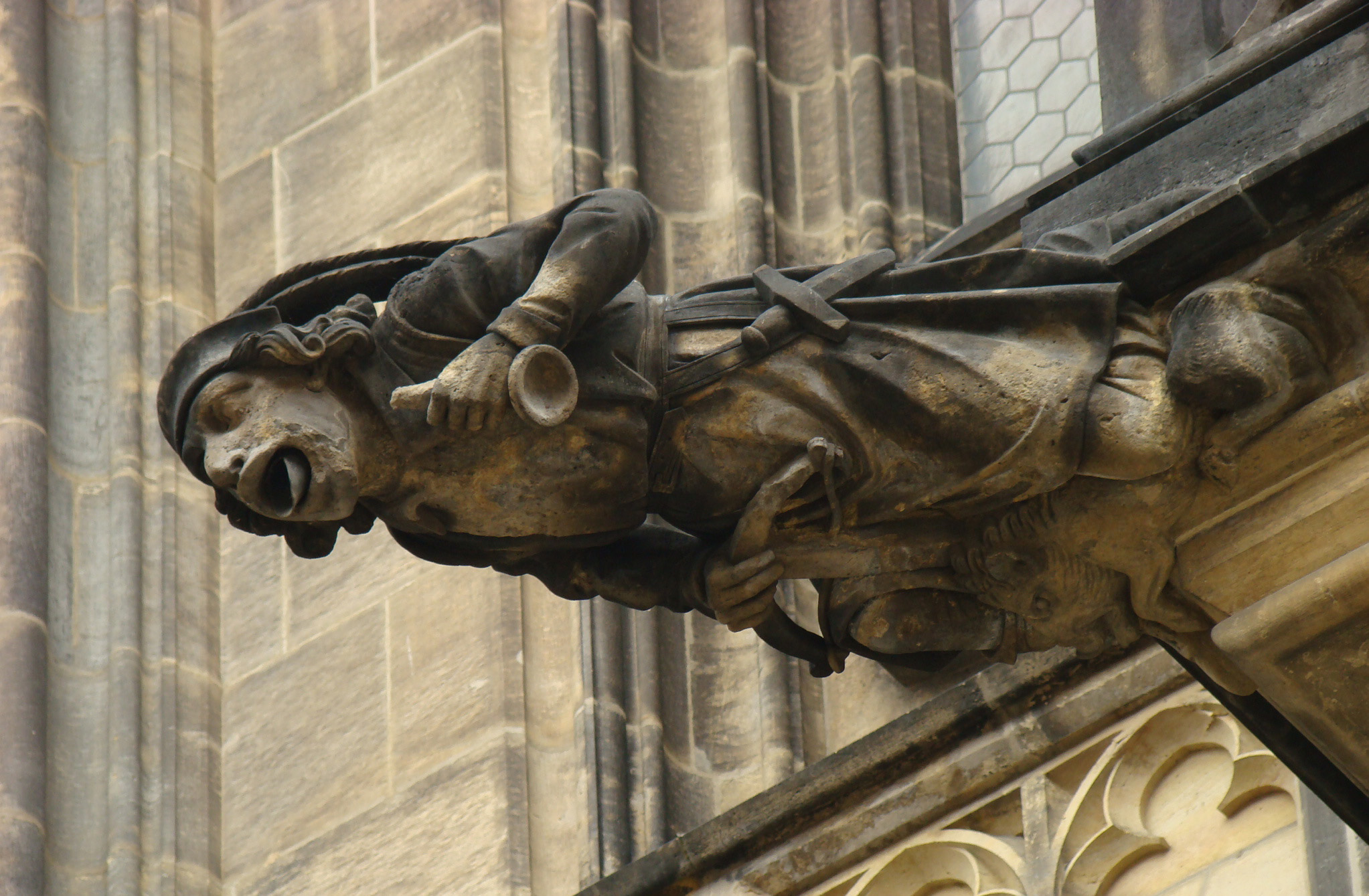 Gargoyle at St. Vitus Cathedral, Prague.